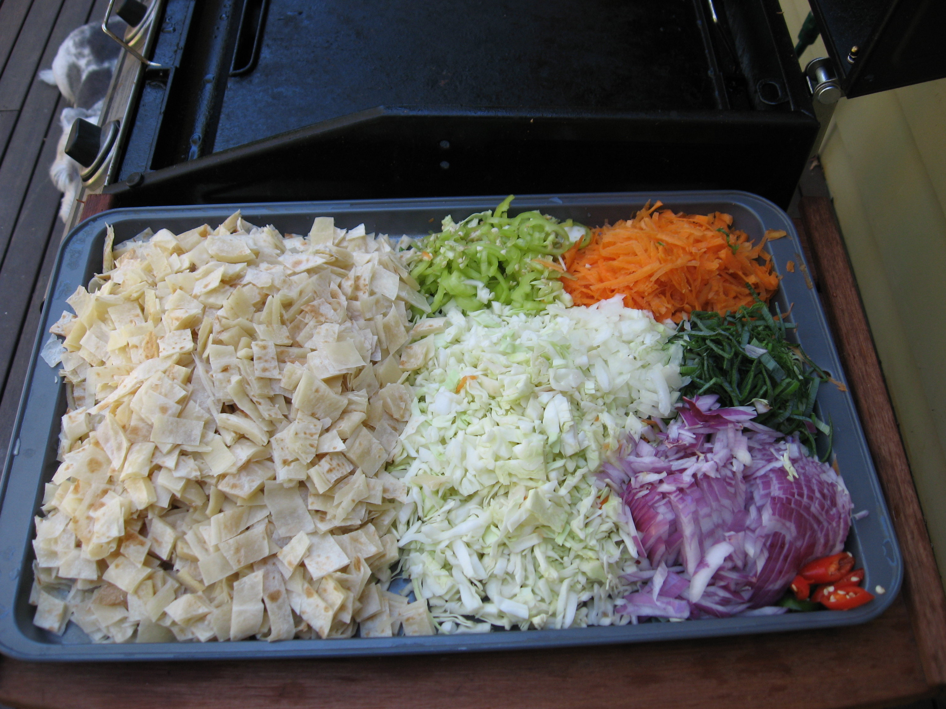 Ingredients for Kottu.